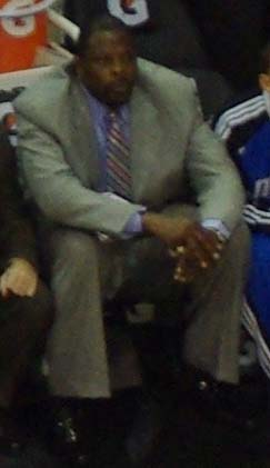 Former New York Knick Patrick Ewing, now a somewhat larger assistant coach with the Orlando Magic.